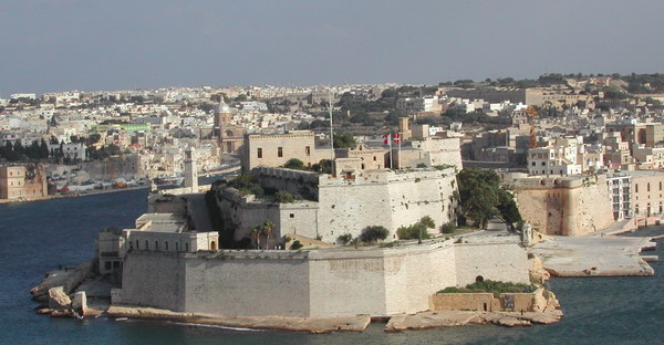 Picture: Fort St. Angelo and a part of the city of Birgu (Vittoriosa) (October 2003) Author: KARSTEN GUENTHER I know it's not much, but it will do for now. Feel free to use it as you wish.